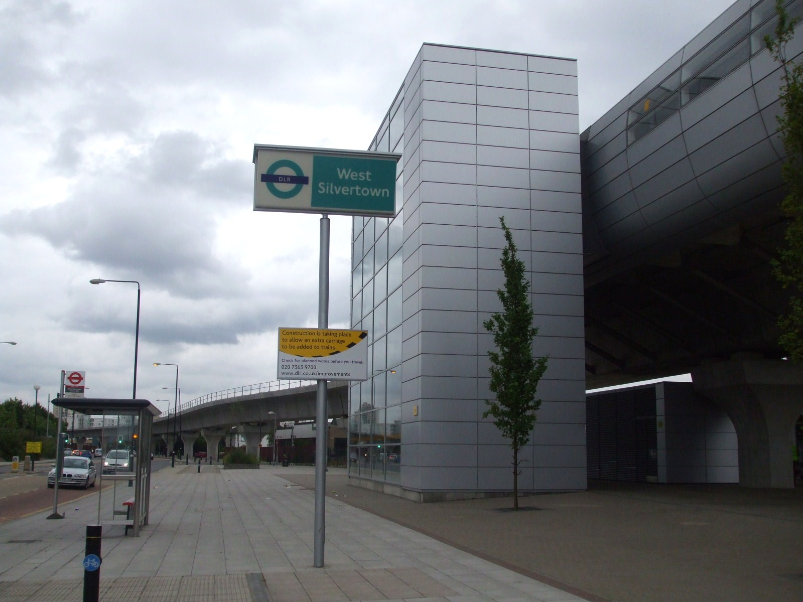 West Silvertown DLR station entrance on the northern side